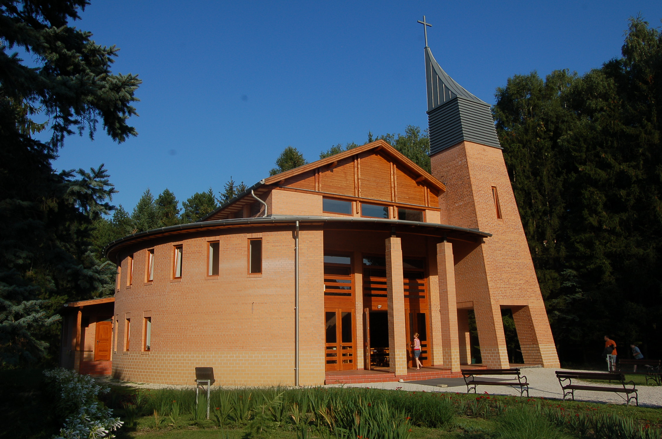 Roman catholic parish church of Zalakaros, Zala County, Hungary